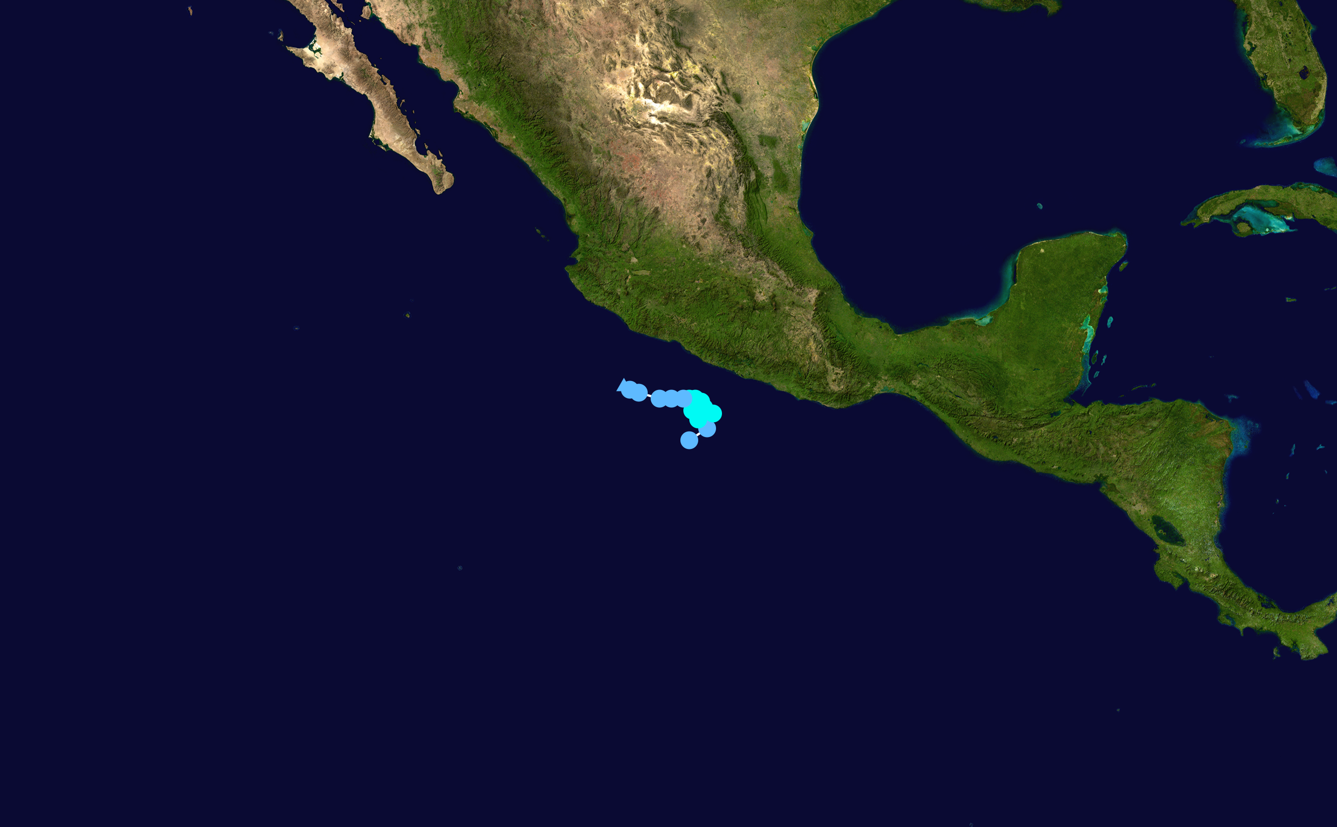 Track map of Tropical Storm Aletta of the 2006 Pacific hurricane season. The points show the location of the storm at 6-hour intervals. The colour represents the storm's maximum sustained wind speeds as classified in the Saffir–Simpson scale (see below), and the shape of the data points represent the nature of the storm, according to the legend below. Saffir–Simpson scale Tropical depression≤38 mph≤62 km/h Category 3111–129 mph178–208 km/h Tropical storm39–73 mph63–118 km/h Category 4130–156 mph209–251 km/h Category 174–95 mph119–153 km/h Category 5≥157 mph≥252 km/h Category 296–110 mph154–177 km/h Unknown Storm type Tropical cyclone Subtropical cyclone Extratropical cyclone / Remnant low / Tropical disturbance / Monsoon depression